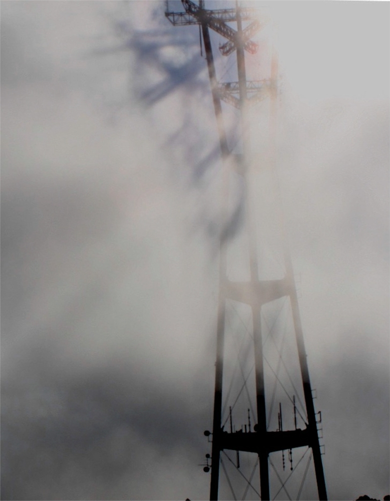 Fog shadow of Sutro tower, San Francisco. These fascinating shadows look odd since humans are not used to seeing shadows in three dimensions. The thin fog was just dense enough to be illuminated by the light that passed through the gaps in a structure or in a tree. As a result, the path of an object shadow through the "fog" appears darkened. In a sense, these shadow lanes are similar to crepuscular rays, which are caused by cloud shadows, but here, they're caused by an object shadows.(The description was provided by Dr. Andy Young.)